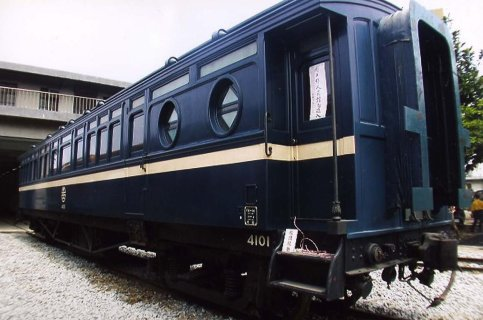 photo by lin & winertai 攝影自台北檢車